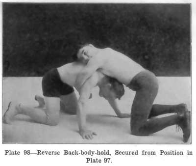 Reverse Back-body-hold as illustrated the scan of Plate 98 in Lessons in Wrestling & Physical Culture.